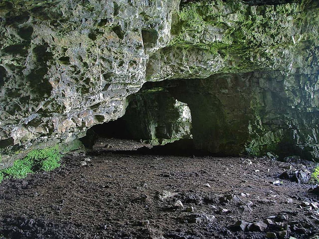 Image title: Cave keshcorran caves near carrowkeel in Ireland Image from Public domain images website